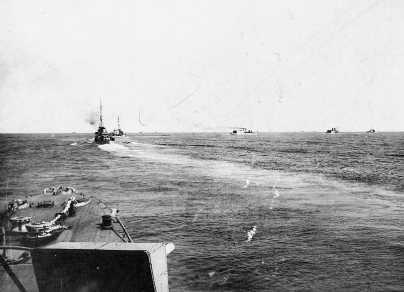 The 1st Light Cruiser Squadron and seaplane carriers at sea, during the operation to bomb the German Zeppelin sheds at Tondern, 4 May 1916. Visible, from left, are HMS CORDELIA, INCONSTANT, PHAETON, ENGADINE, VINDEX and GALATEA. Phaeton, Galatea and Inconstant are Arethusa class cruisers. Engadine and Vindex are ferries converted to carry aircraft. Cordelia was a type 'Caroline' variant of the C class cruisers.